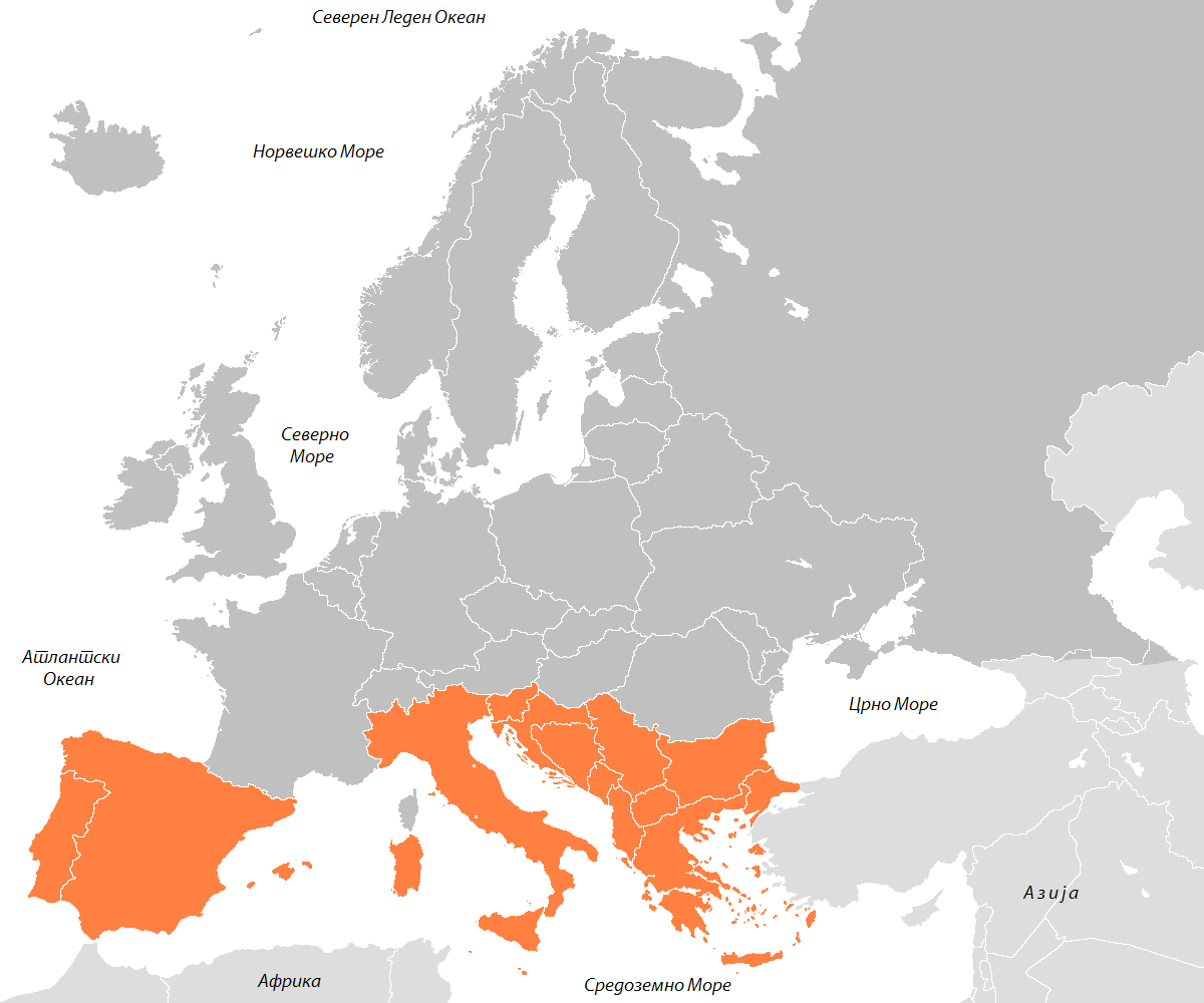 Map of South Europe on Macedonian.